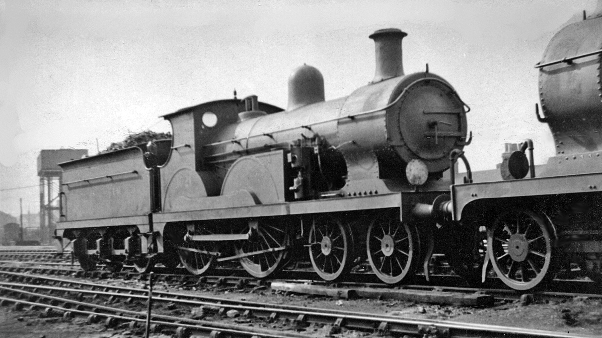 Ex-SE&CR class B1 4-4-0 at Tonbridge Locomotive Depot. No. 1021 was a Wainwright rebuild (4/13) of a Stirling Class B 4-4-0 (built 10/1898). In its young days had dashed down to Dover on Continental Boat Expresses, but was now near its demise (in 12/47). Tonbridge was an important junction with extensive freight yards and the Depot had an allocation in 1947 of 64:- 13 4-4-0, 3 2-6-0, 22 0-6-0, 3 0-6-2T, 4 0-6-0T and 18 0-4-4T.